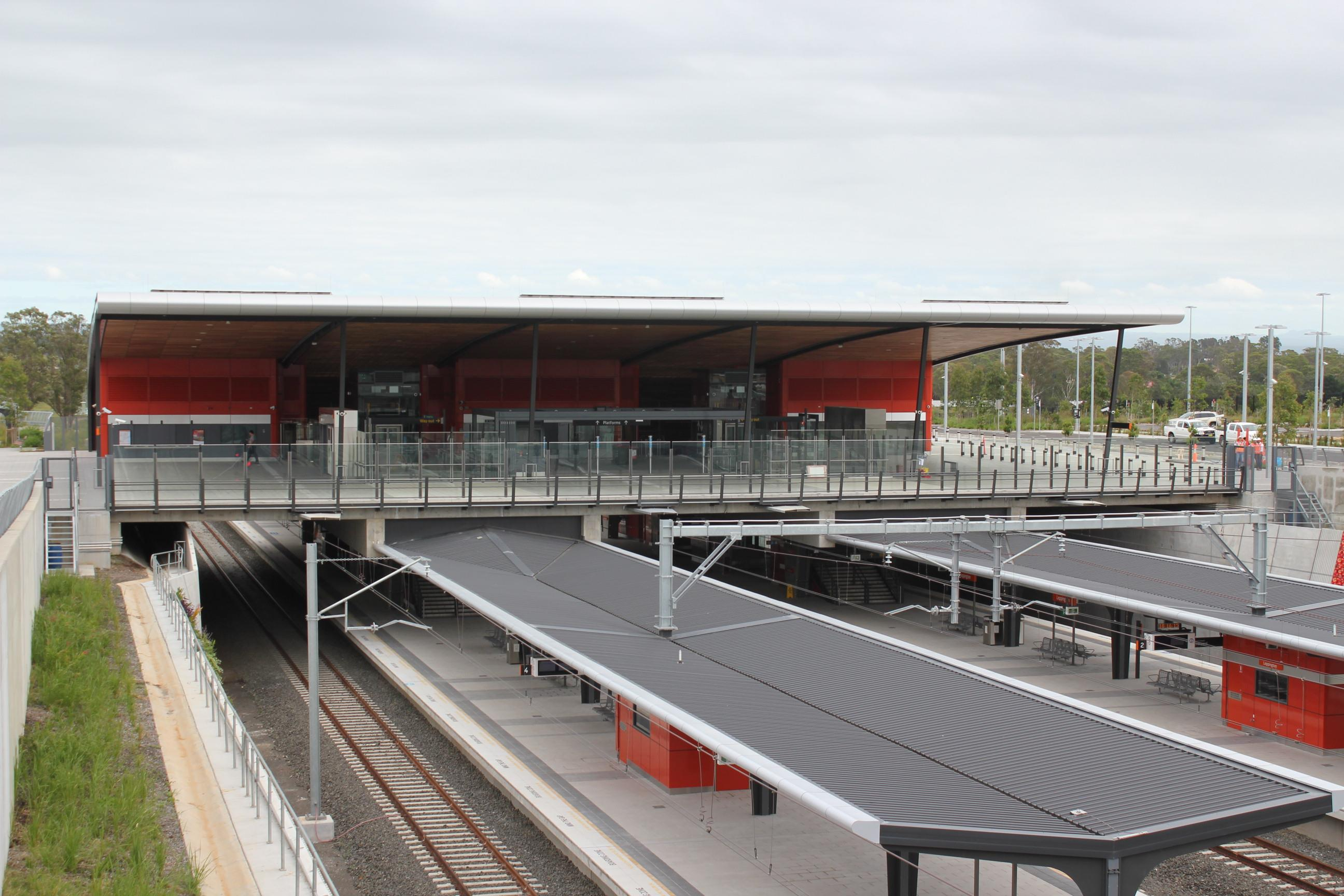 South West Rail Link SWRL Leppington Station Pre Opening